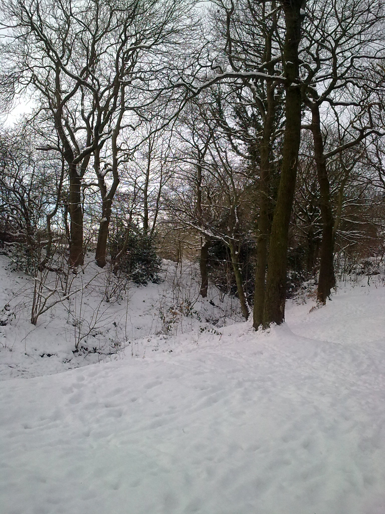 Snow in the Stoneley Woods, Charnock, Sheffield. 2010.